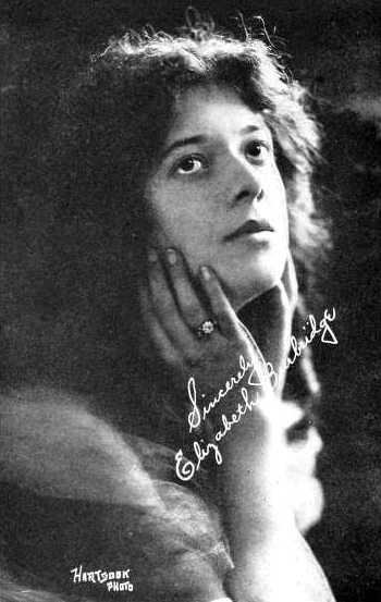 Photo of silent film actress Elizabeth "Betty" Burbridge